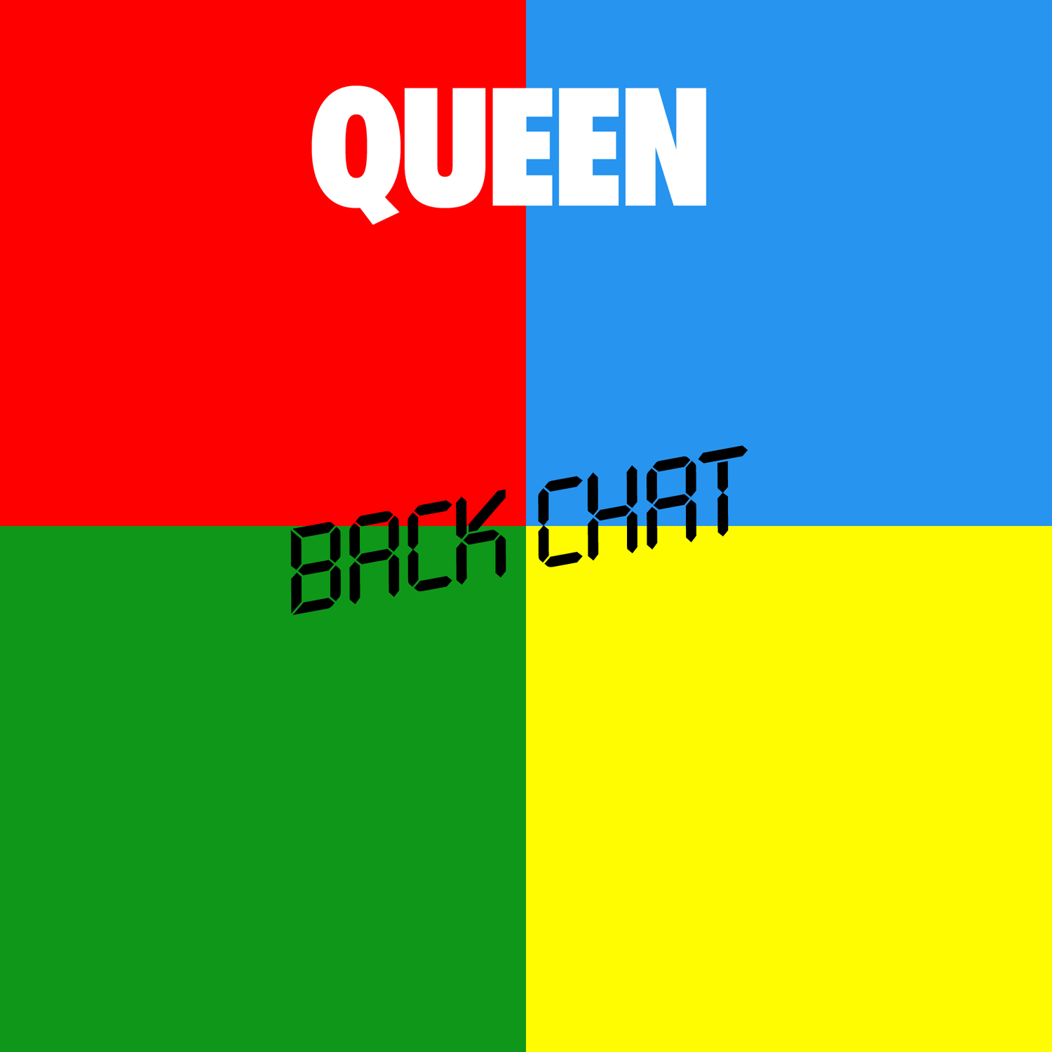 Cover of the Queen single Back Chat.